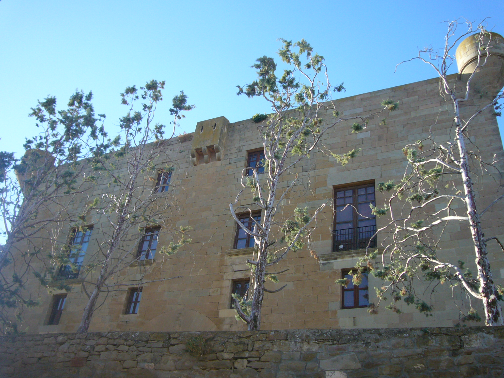 Montclar d'Urgell castle - South wall with main entrance